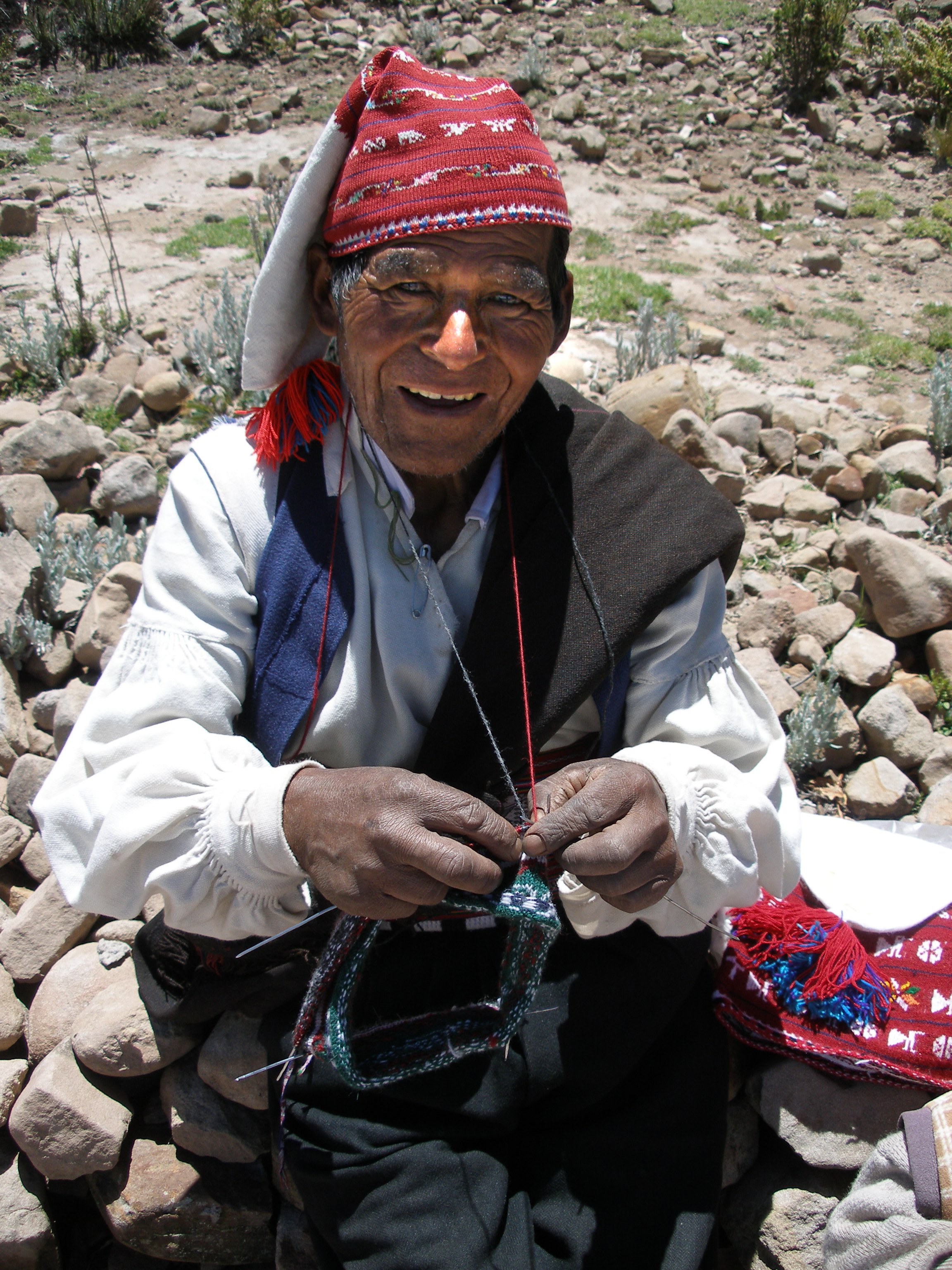 Man of Taquile knitting. He is also wearing a knitted hat. Original caption: Residents of the island of Taquile on Lake Titicaca make a living subsistence farming and knitting the wool from their sheep and alpacas. The men do the knitting, the women the spinning. As tourism has grown, the value of their knitting has grown with it, and we were told the best knitters "get all the girls".